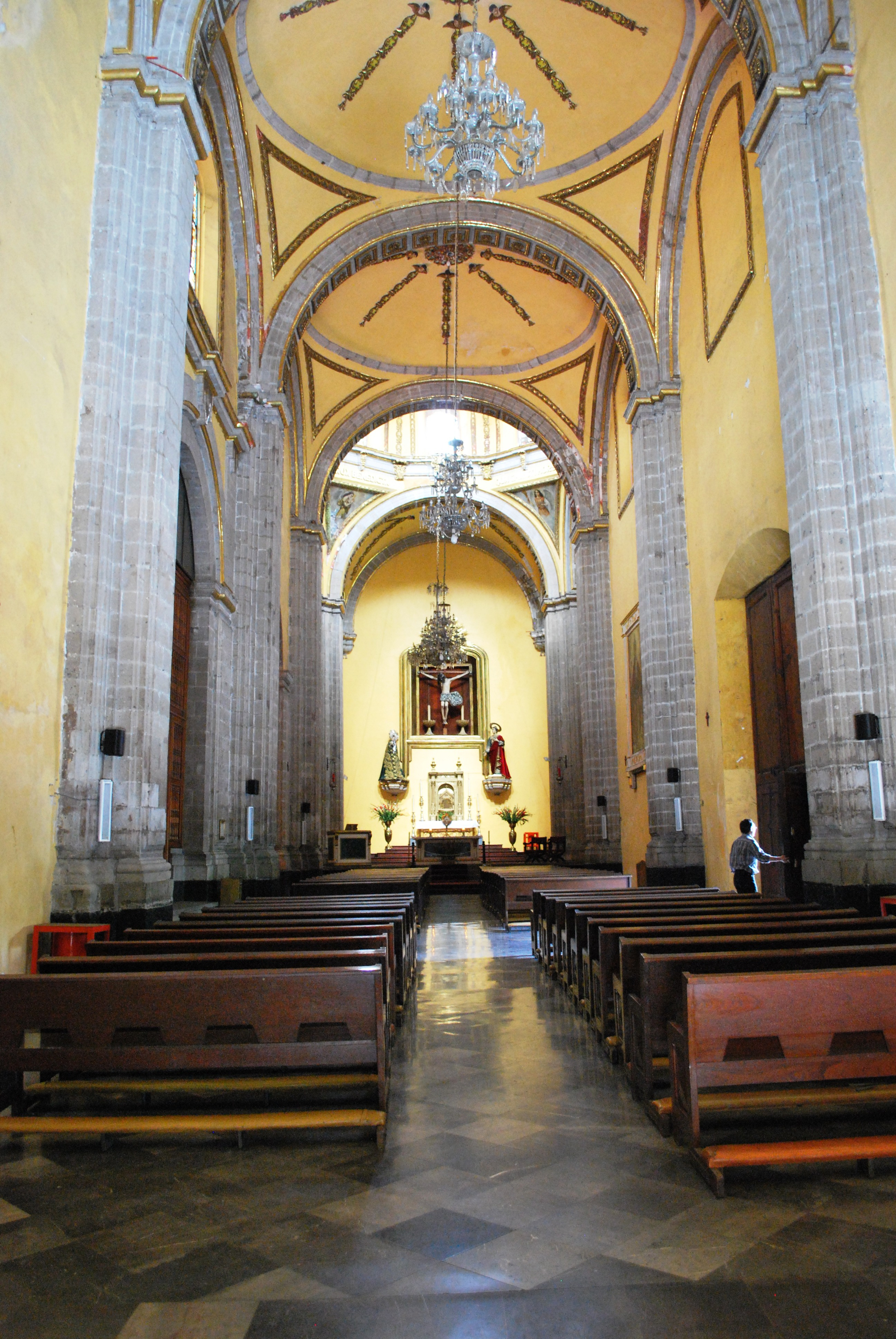 Inside the main church of the Parish of Santa Vera Cruz located near the Alameda in Mexico City